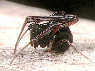 male Dolichognatha umbrophila from Okinawa.